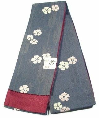 Half width obi for yukata